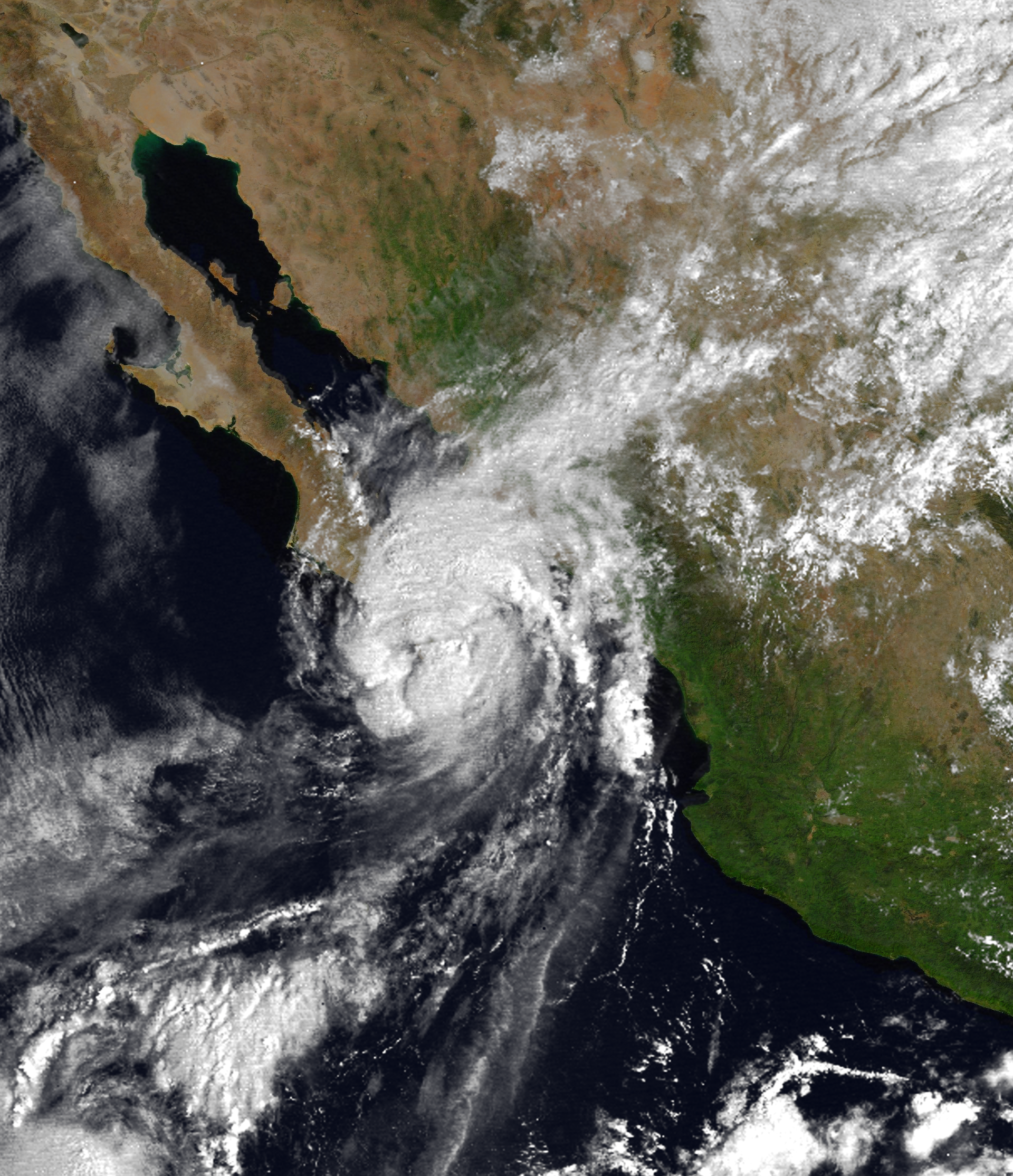 Tropical storm Lidia near peak intensity on October 7th.